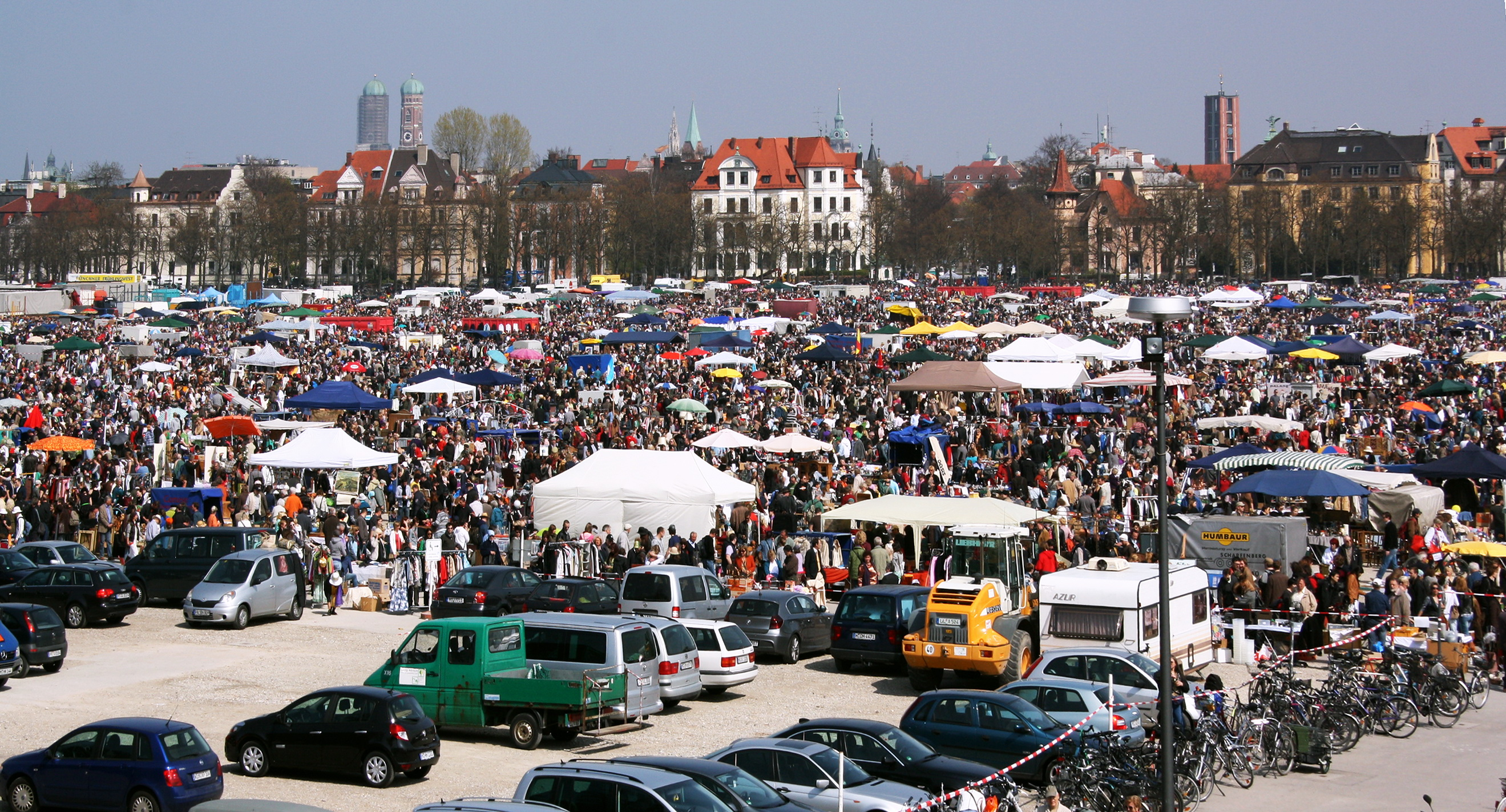 Flea Market at the Theresienwiese. The largest flea market in Germany.